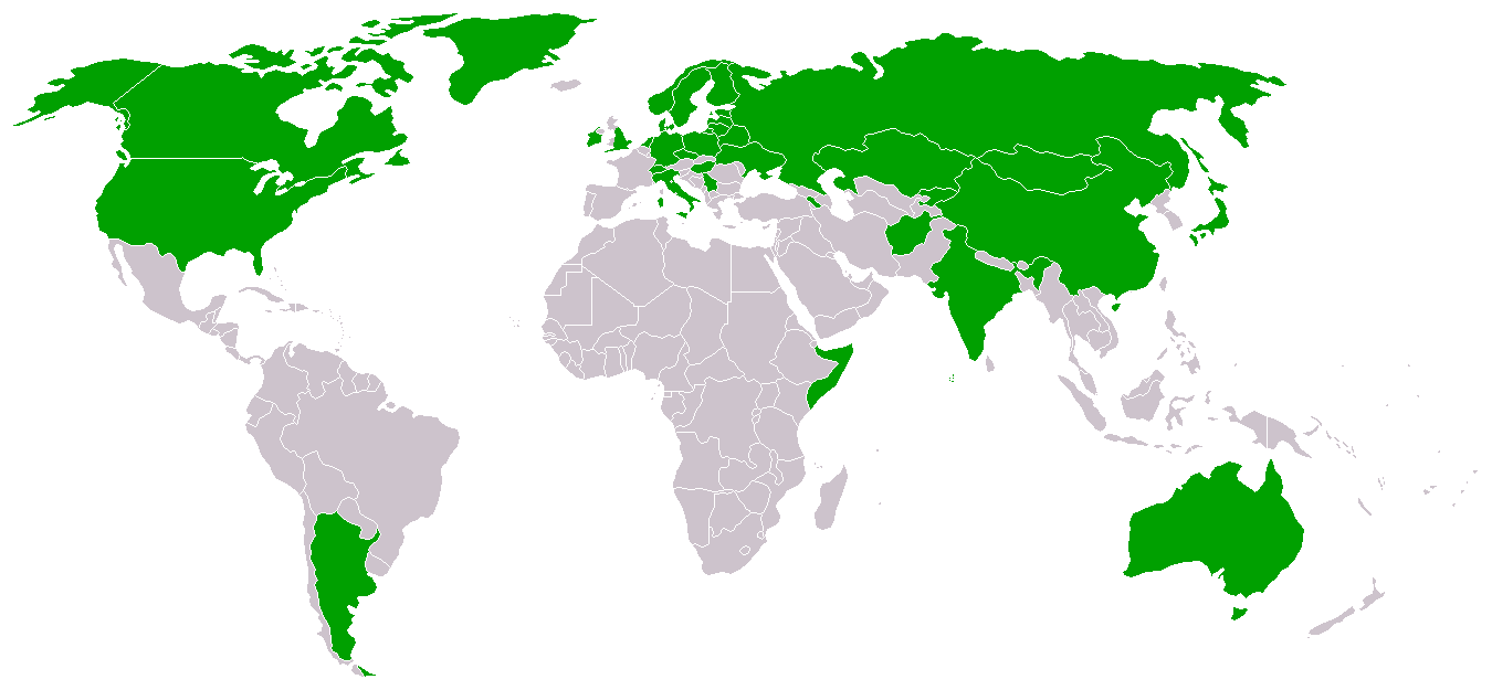 Member countries of the Federation of International Bandy in 2015